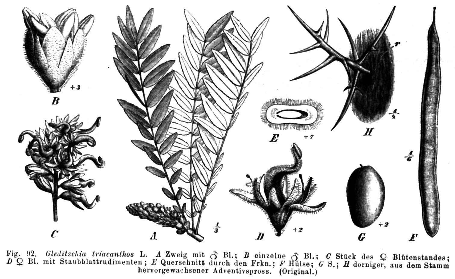 Illustration from book